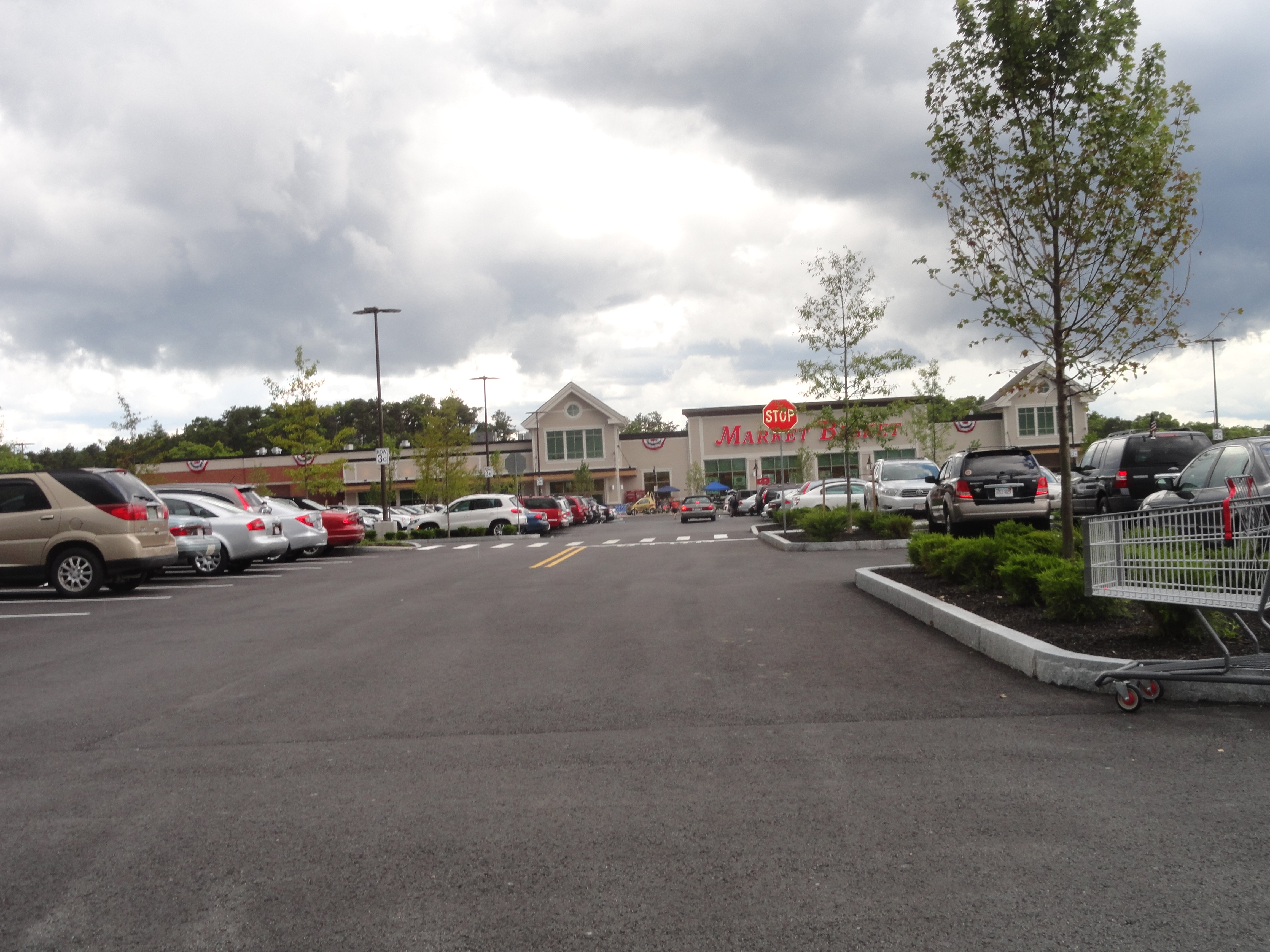 Market Basket at the Cape Cod Factory Outlet Mall.